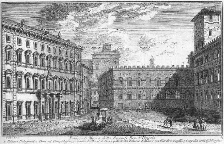 Engraving by Giuseppe Vasi. Plate No. 65. Original description: 1) Palazzo Bolognetti; 2) Torre sul Campidoglio; 3) Strada di Macel de' Corvi; 4) Palazzetto Venezia; 5) Cappella della Beata Vergine.